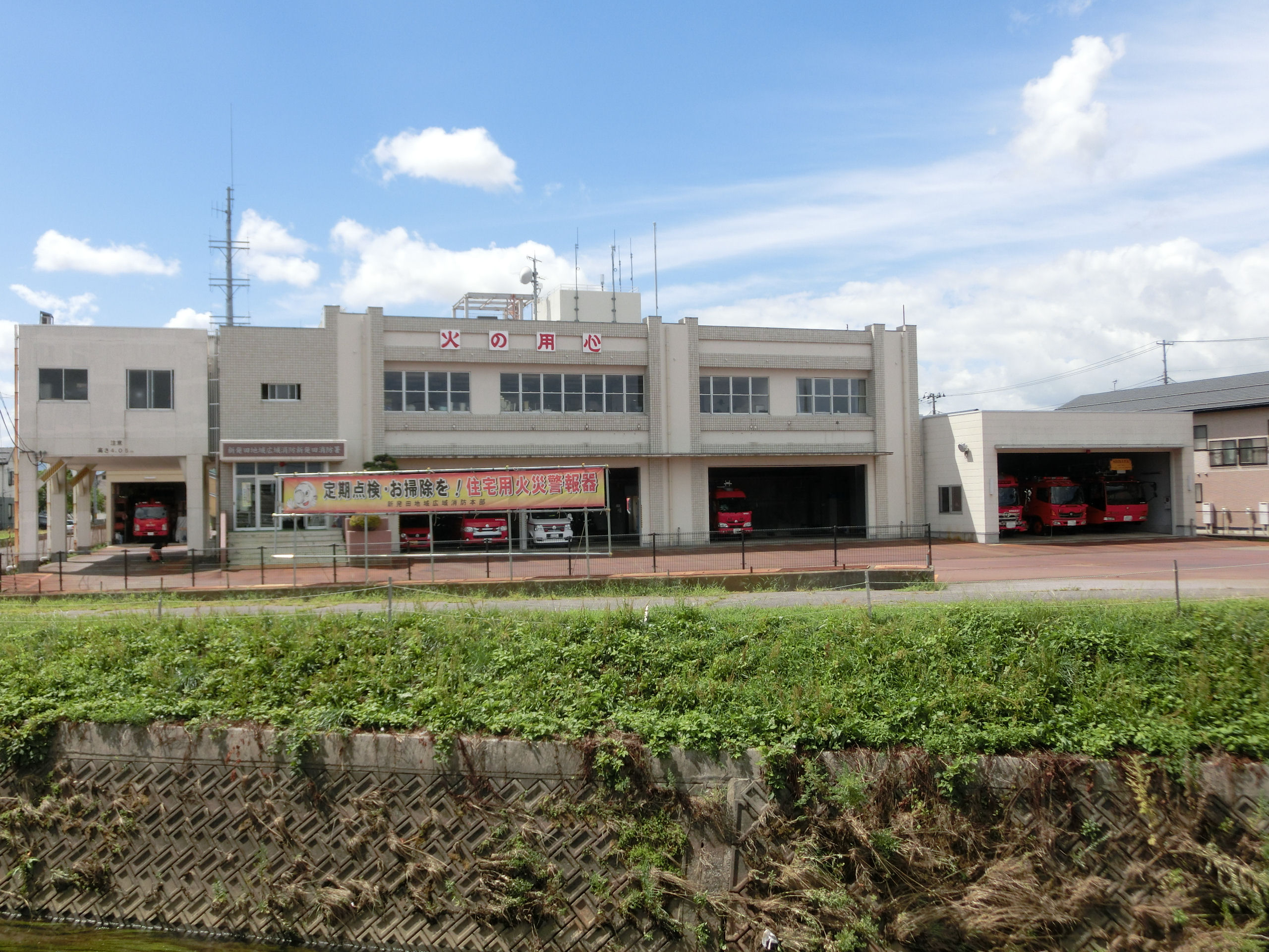 Shibata Area Fire Department